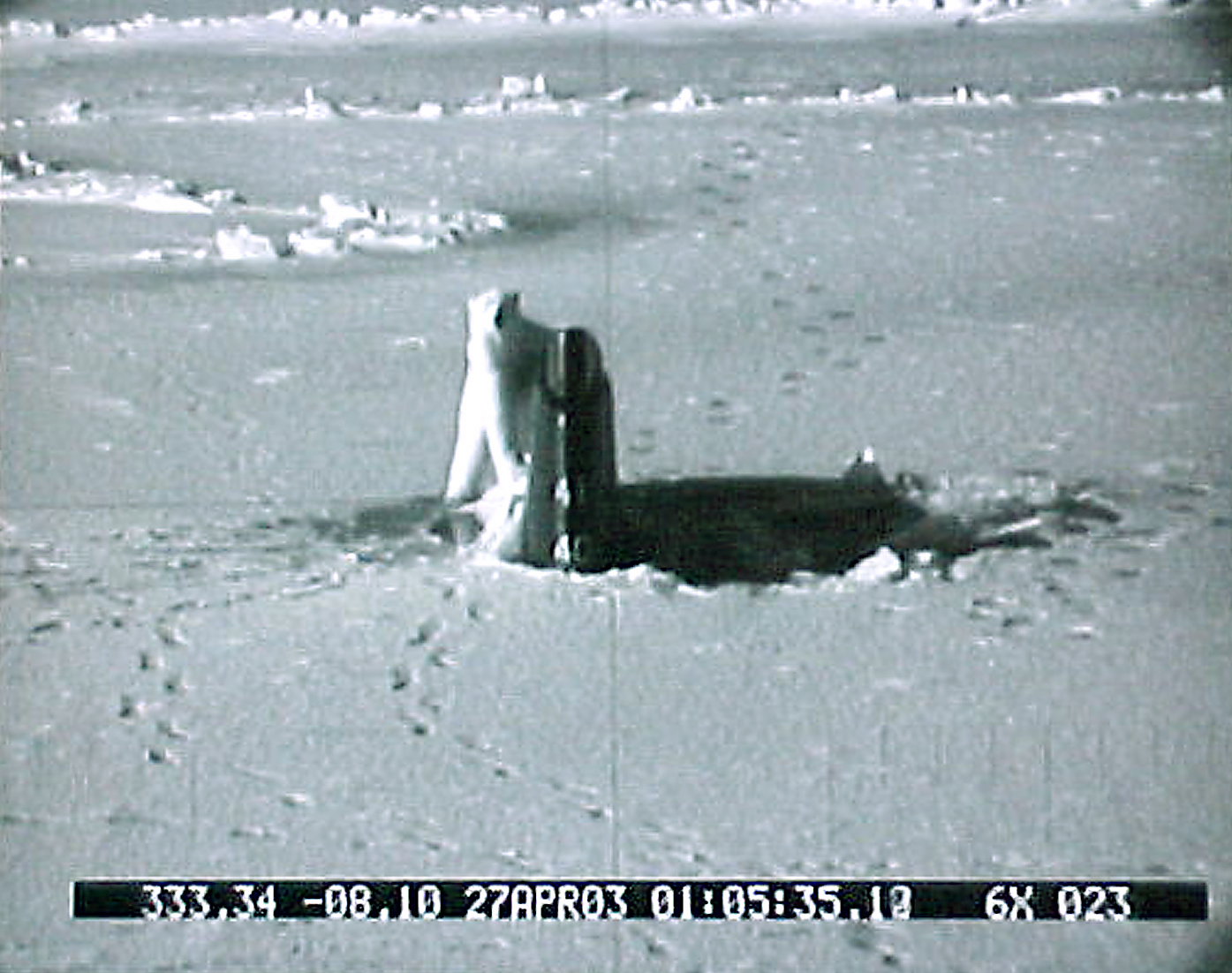 USS Connecticut attacked by polar bear Note that while several different Web sites claim copyrights to this picture, it was in fact taken by a US Naval officer through the boat's periscope. Thus, it is clearly in the public domain.